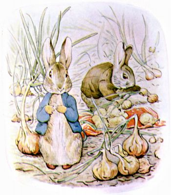 Illustration from children's book The Tale of Benjamin Bunny